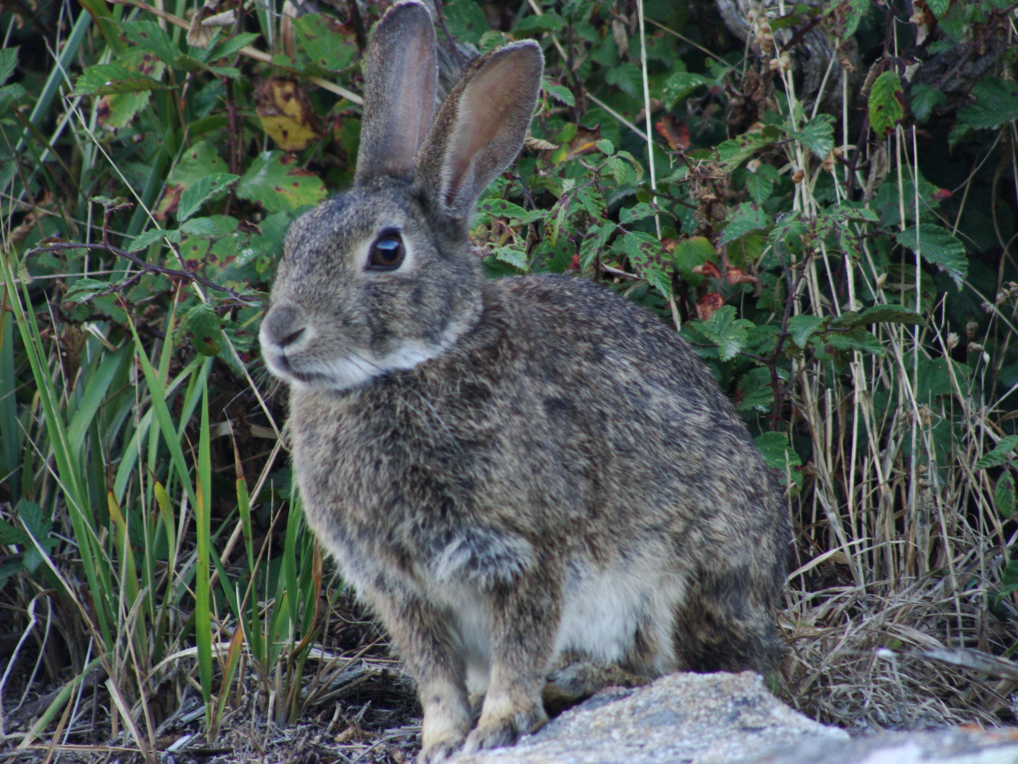 Oryctolagus cuniculus (Rabbit) in Cíes Islands, Pontevedra, Galicia, Spain.